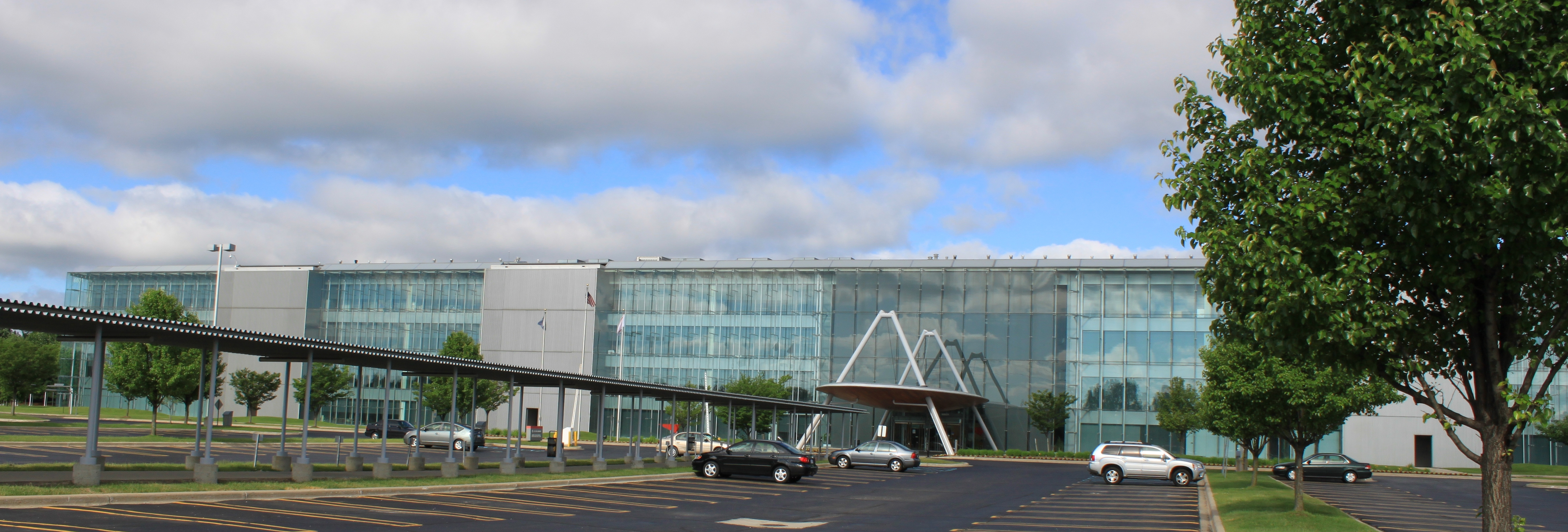 Yazaki North America Headquarters, 6801 Haggerty Road, Canton, Michigan